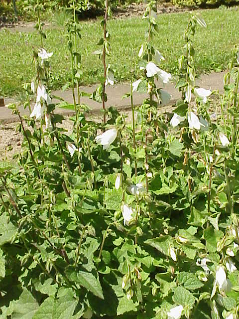 Species Campanula alliariifolia Familia Campanulaceae Image no. 3 Permission granted to use under GFDL by Kurt Stueber